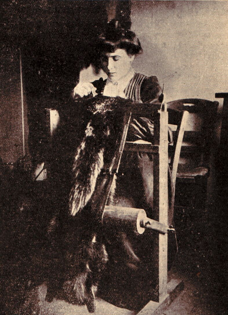 Machine for putting white hairs into fur skins